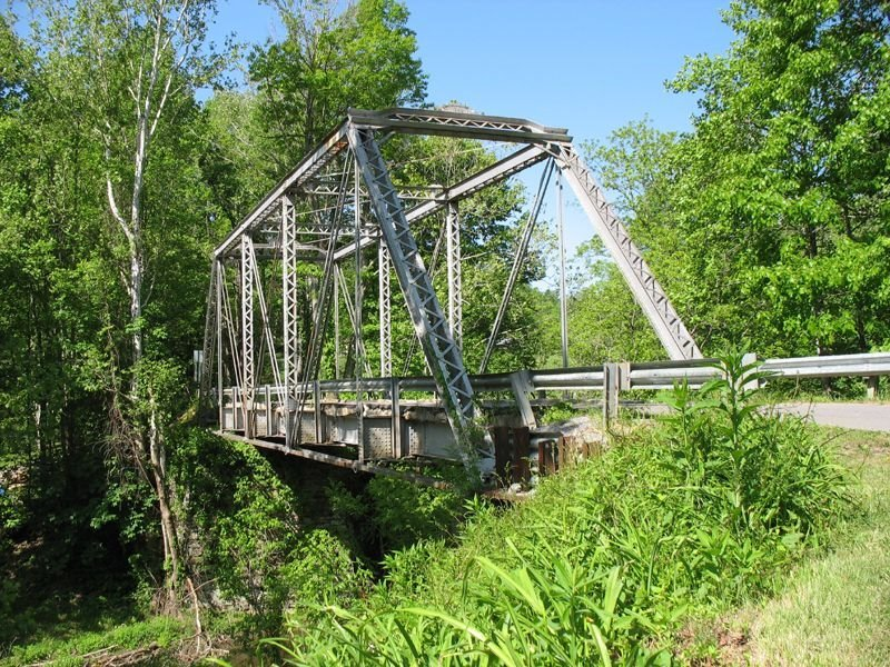 Keystone Bridge built in 1889 over the Doe River in Carter County, Tennessee. Bridge is located in the south end of the Doe River Gorge. Originally built for railroad use, now used for automobiles.